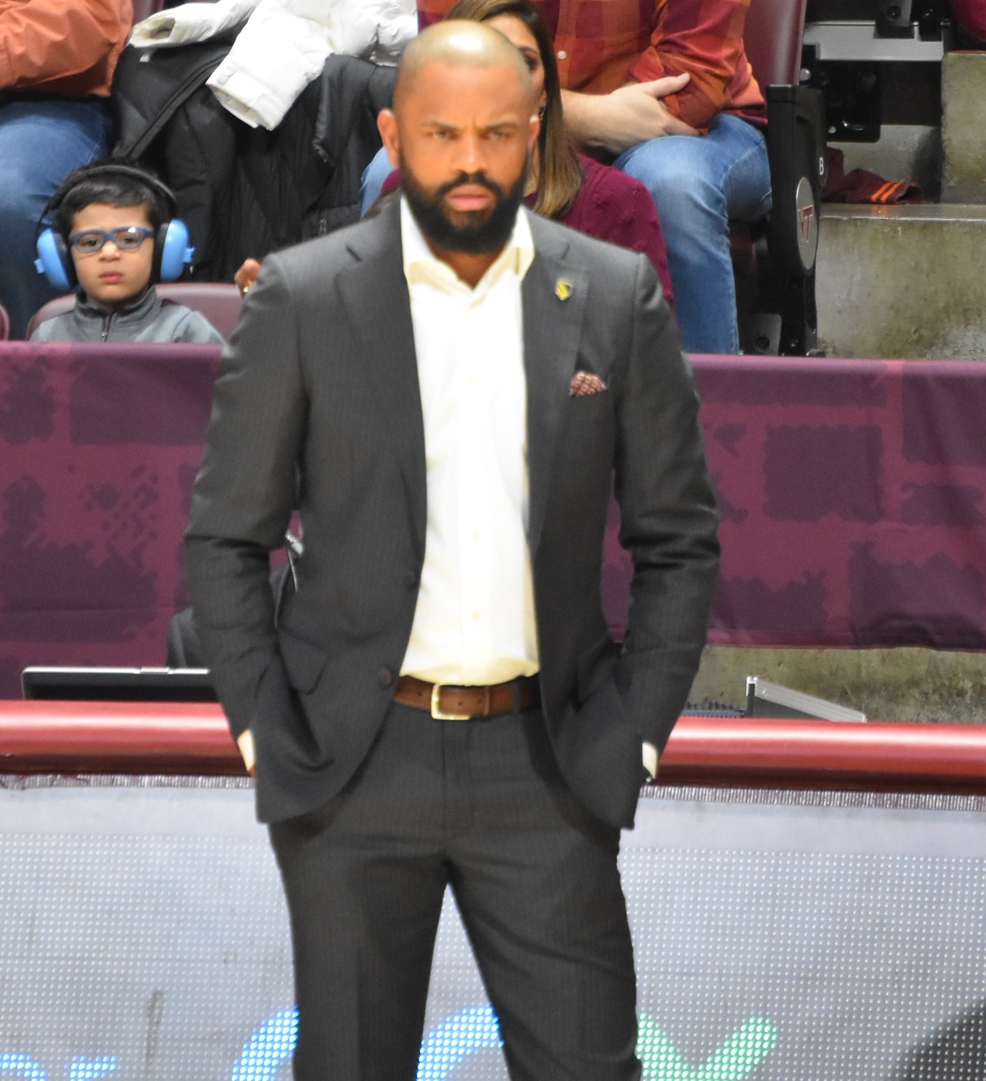 Former Maryland Standout Juan Dixon is the Head Coach at Coppin State.